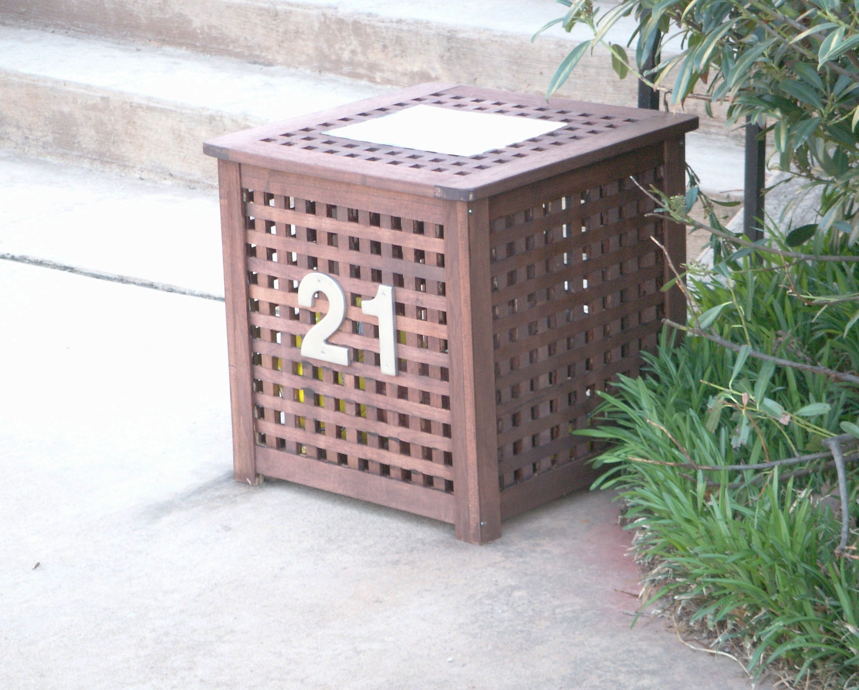 A container of footballs, soccer balls, and other sporting goods in the McCormick Road Dormitory area made available by the 21 Society for use by students and visitors.